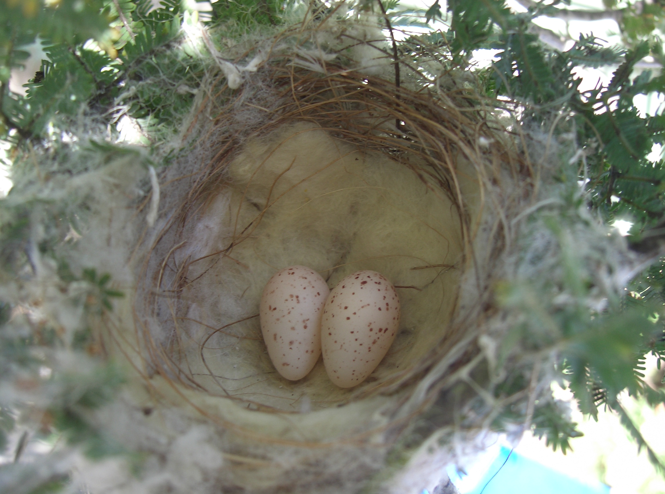 Lichenostomus penicillatus (White-plumed Honeyeater) nest with two eggs. In a suburban backyard in Melbourne, Australia.